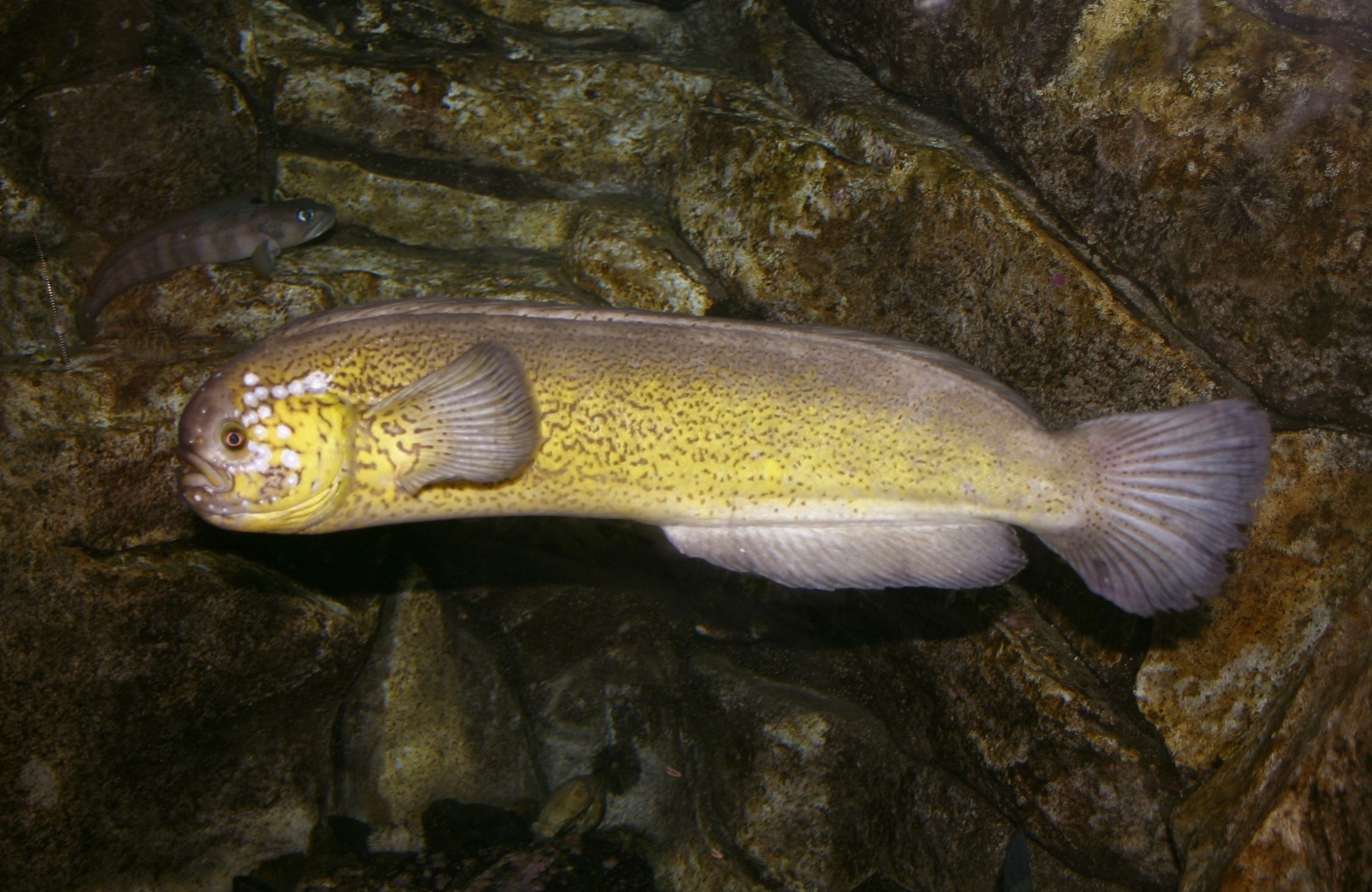 Prowfish (Zaprora silenus) Image ID: fish4009, NOAA's Fisheries Collection Location: Alaska, Juneau